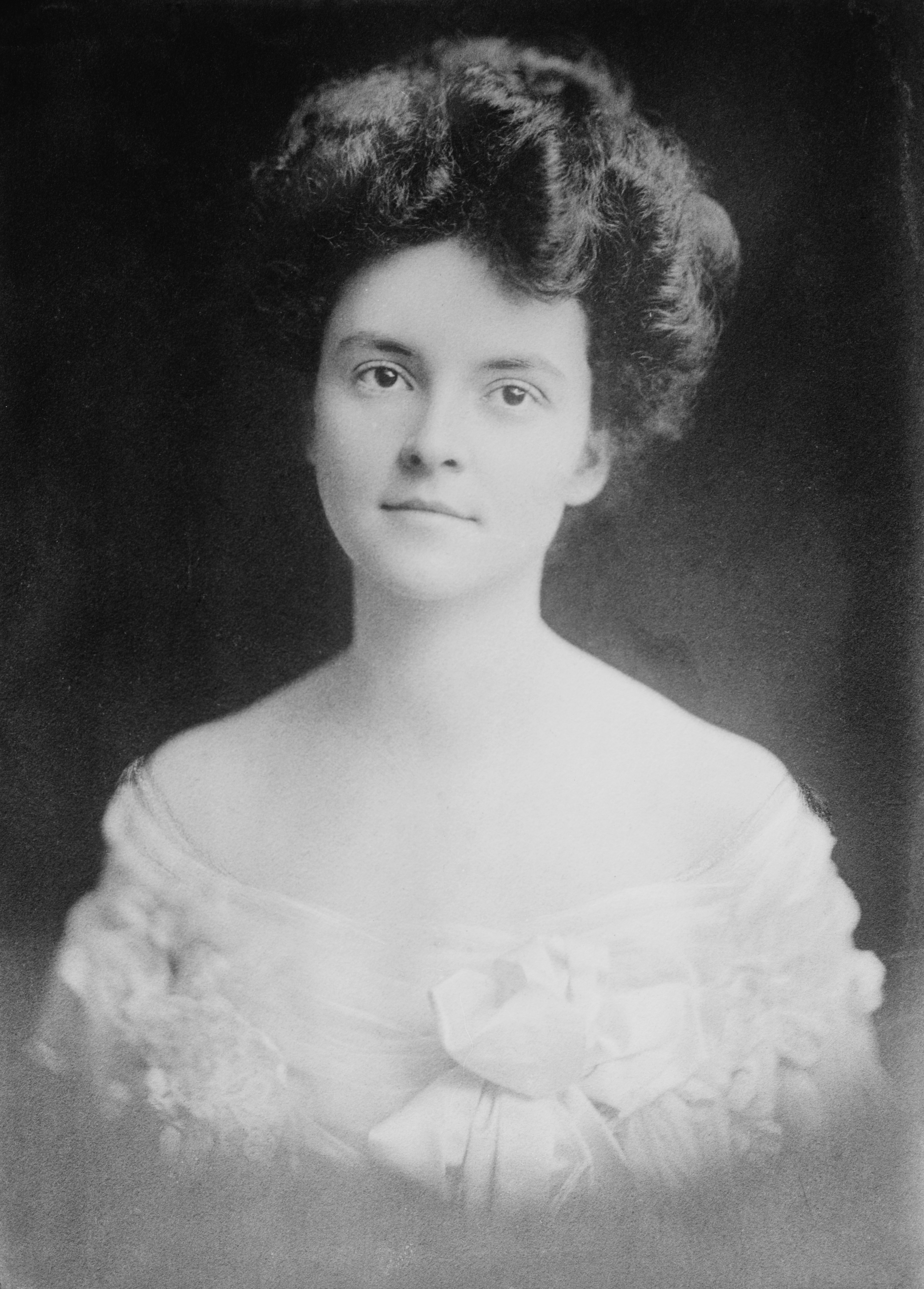 Anne Dallas Dudley. From glass negative, 5 x 7 in. or smaller.